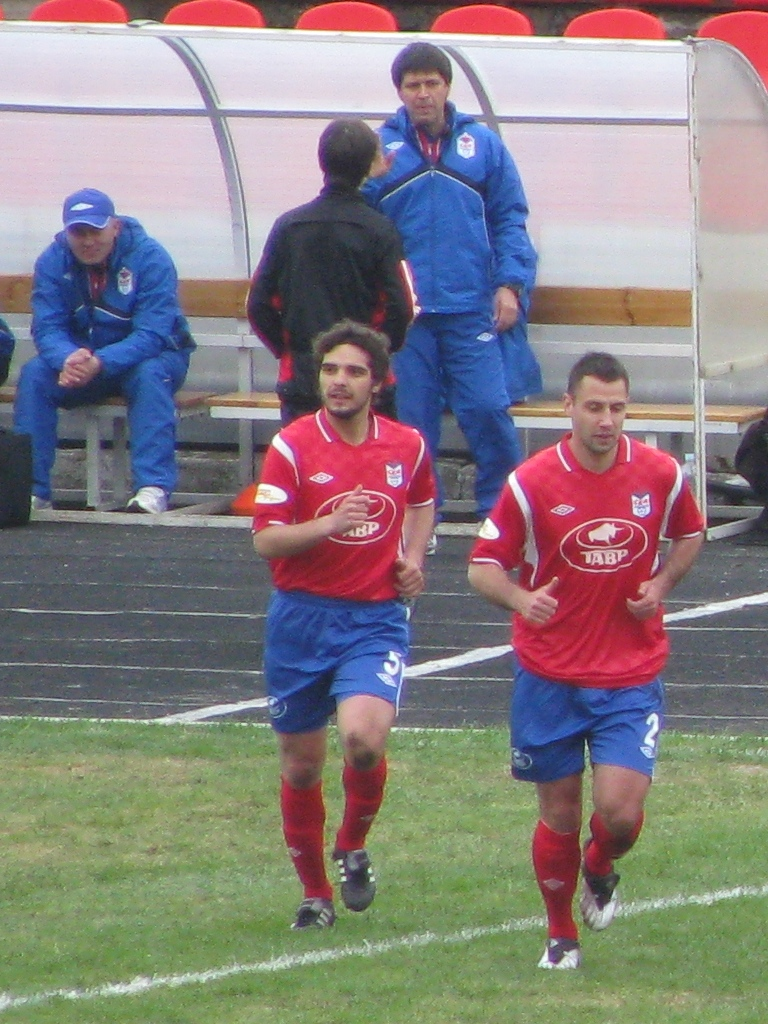 Vladimir Chechulin and Anton Sakharov, and coach Igor Khankeyev